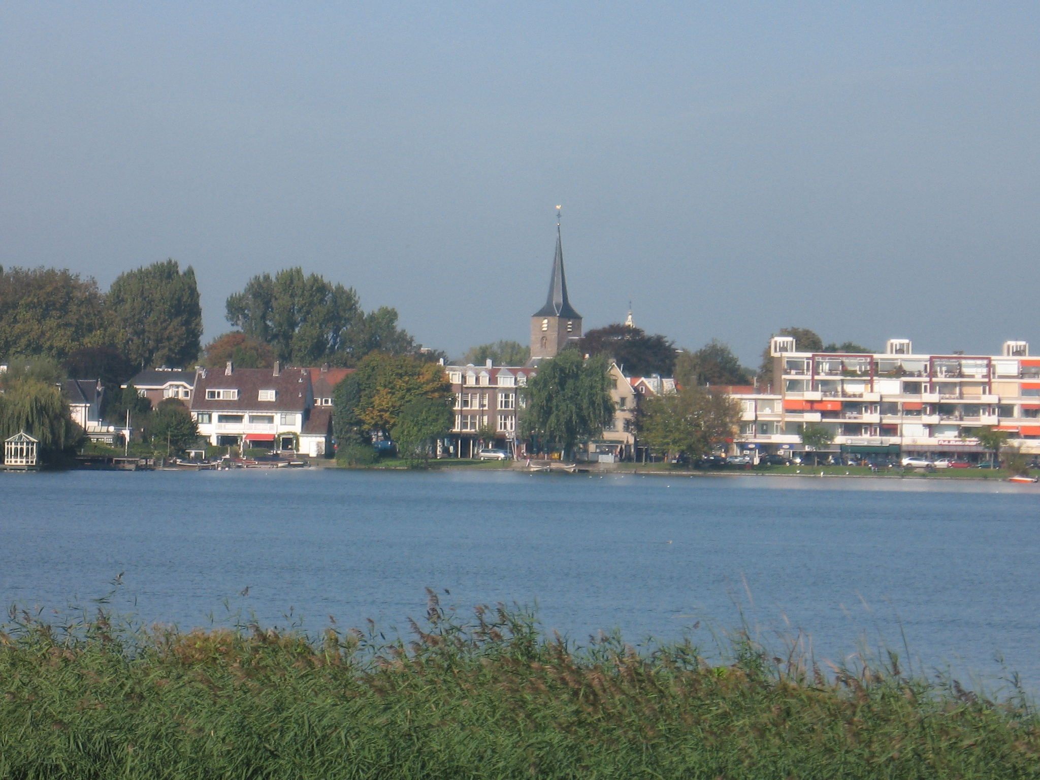 Hillegersberg